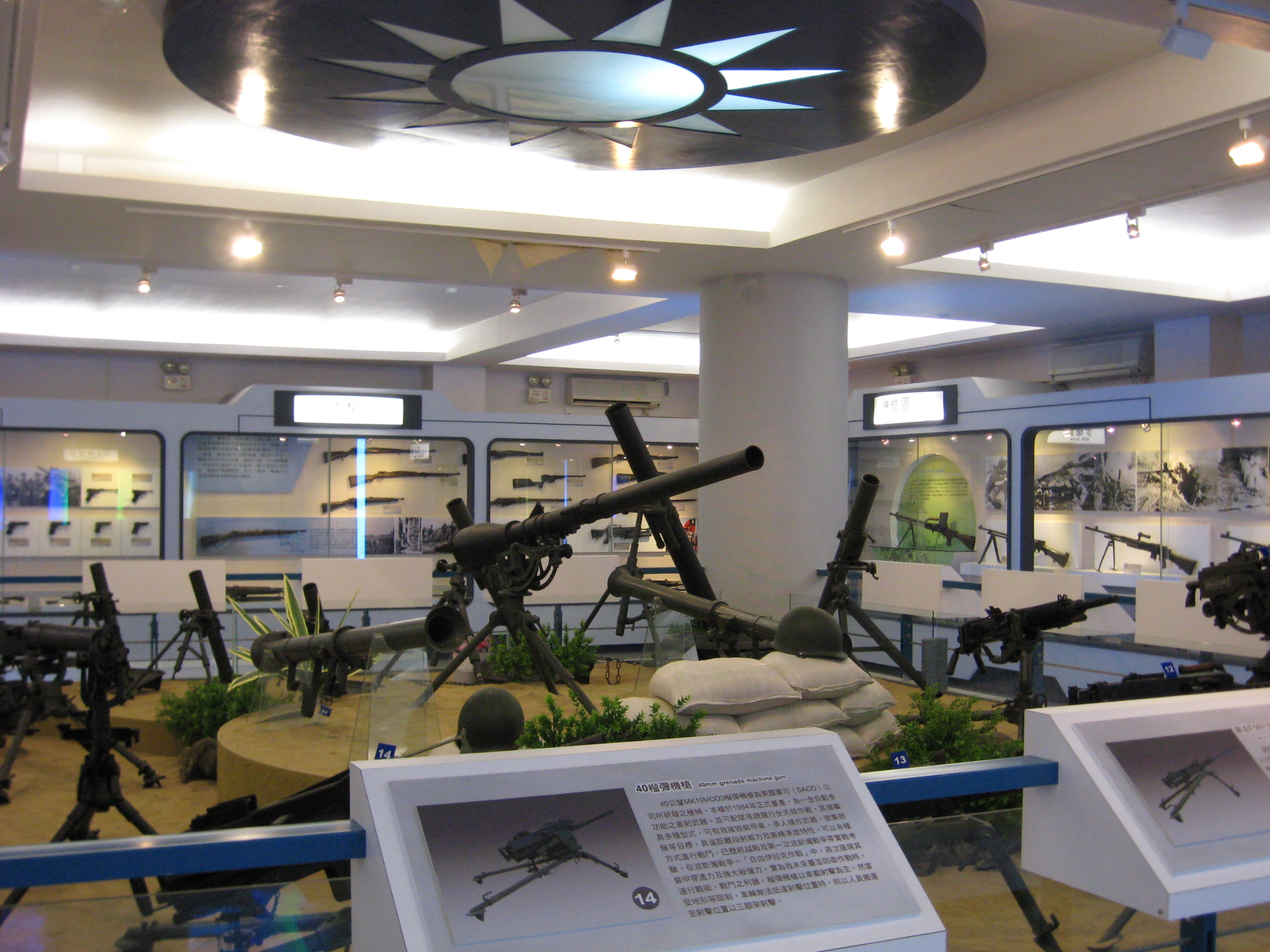 The 5th Showroom in Armed Forces Museum.